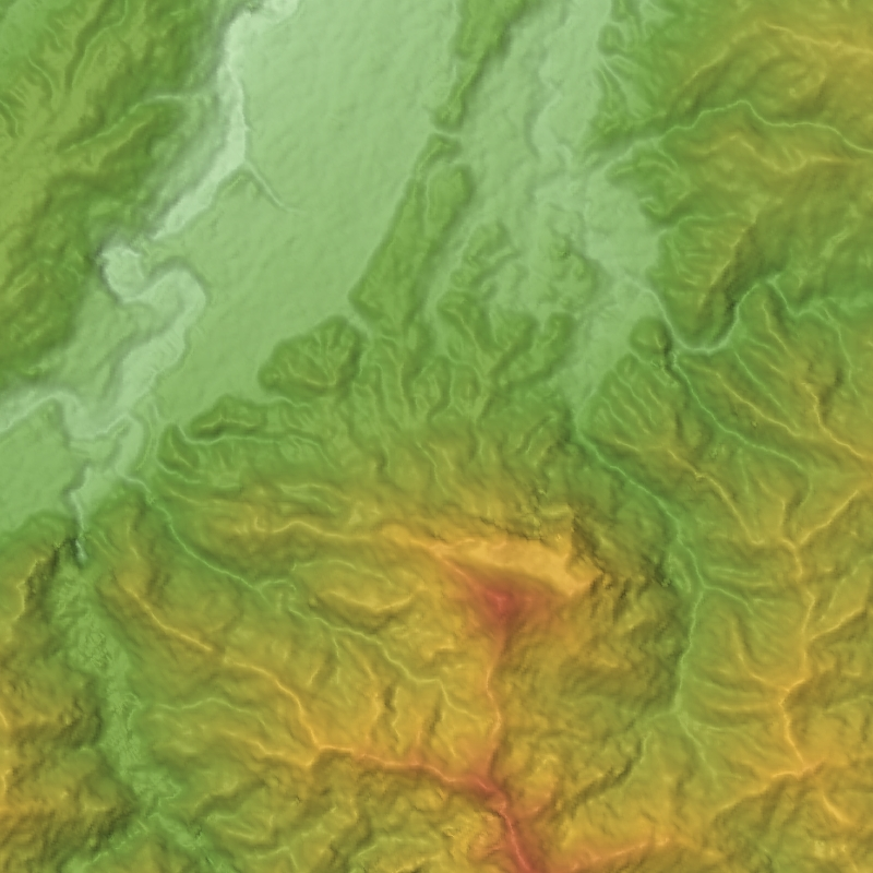 Mount Buko in Saitama Prefecture, Honshu, Japan.